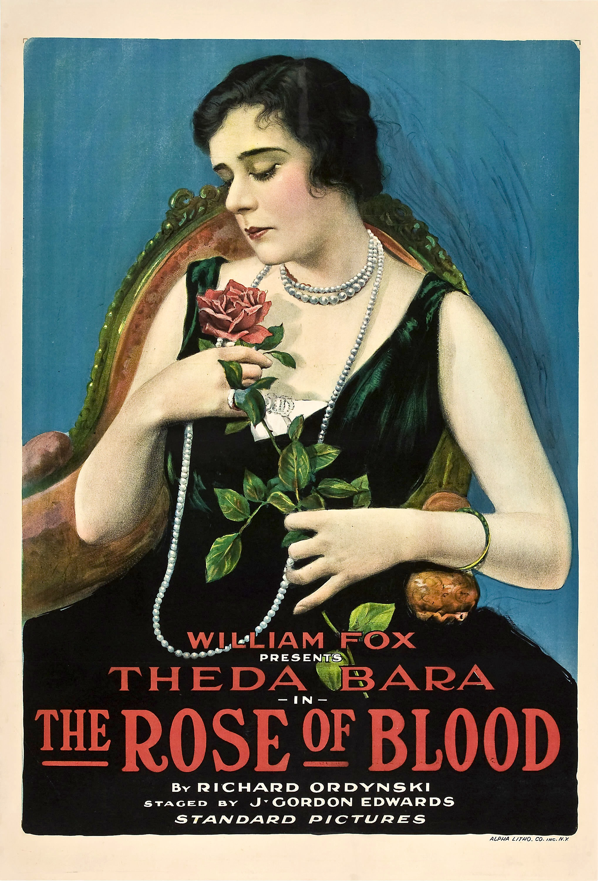 Low-res movie poster used solely to illustrate article on the American drama film The Rose of Blood (1917) with Theda Bara.